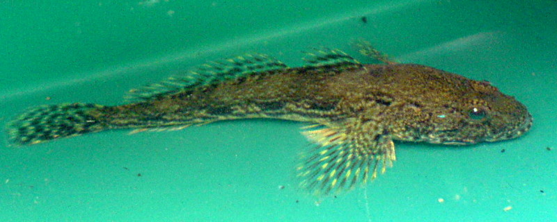 European bullhead caught in the Main River near Lohr, Germany.